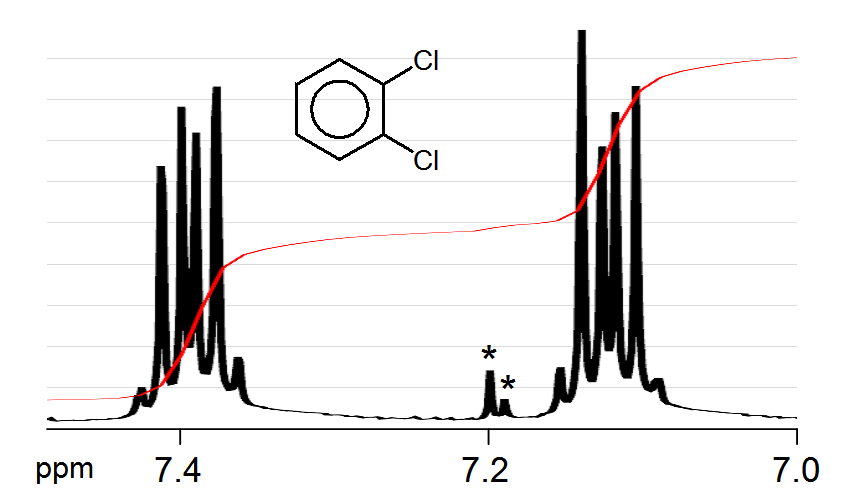 CDCl3 300 MHz